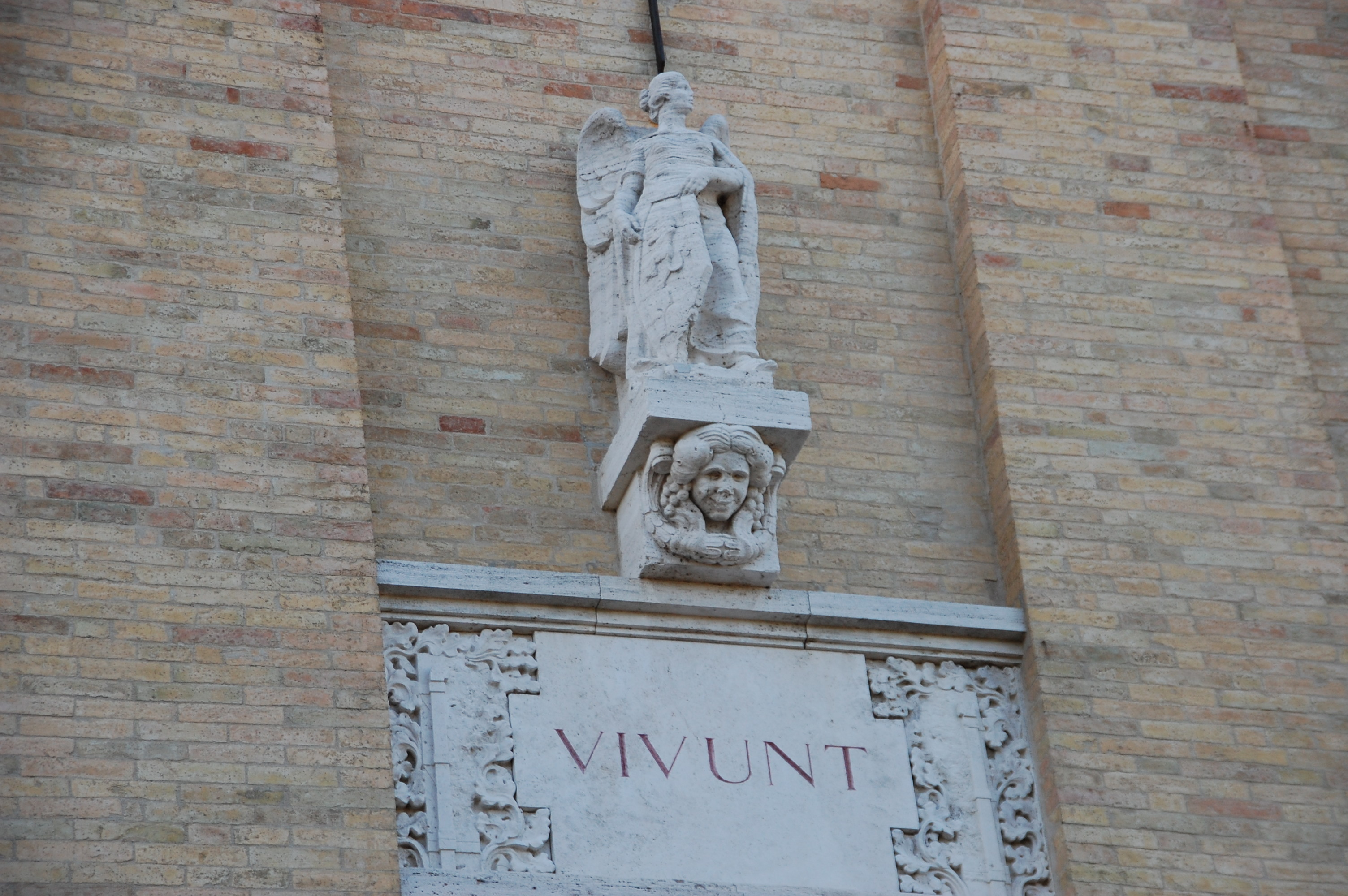 Monumento ai caduti della prima guerra mondiale di Montecarotto realizzato da Vito Pardo, dettaglio della mensola sinistra e della statua raffigurante la Vittoria alata. Si notano inoltre le fronde di quercia e d'alloro laterali sui lati della mensola e i resti dei fasci littori scalpellati.